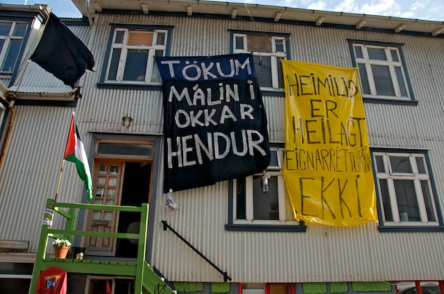 This squat was claimed on Thursday, April 9, 2009. On Monday, April 6, I picked up a copy of One Flew over the Cuckoo's Nest and on Wednesday, April 8, it was raided by police. The signs say "We take matters into our own hands" and "The home is not sacred property". Reykjavík, Iceland - April 2009